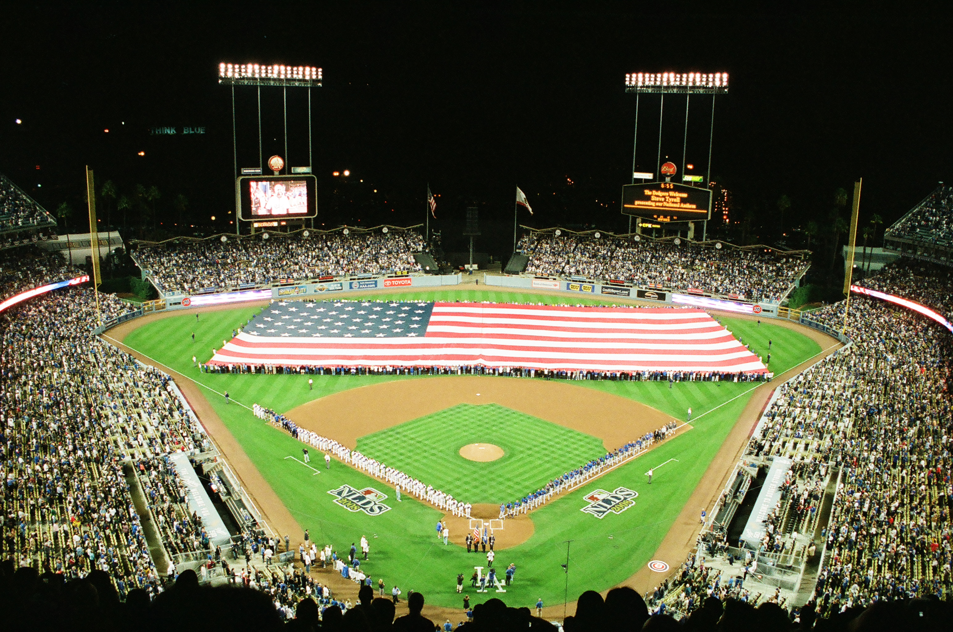 The view from the top deck at Dodger Stadium during the national anthem before game 3 of the National League Division Series on October 4, 2008. The Dodgers defeated the Chicago Cubs 3-1 to sweep the series 3-0.